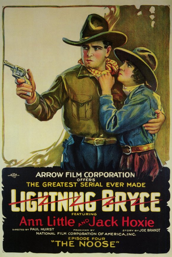 Marquee poster of the 1919 film release Lightning Bryce starring Jack Hoxie.